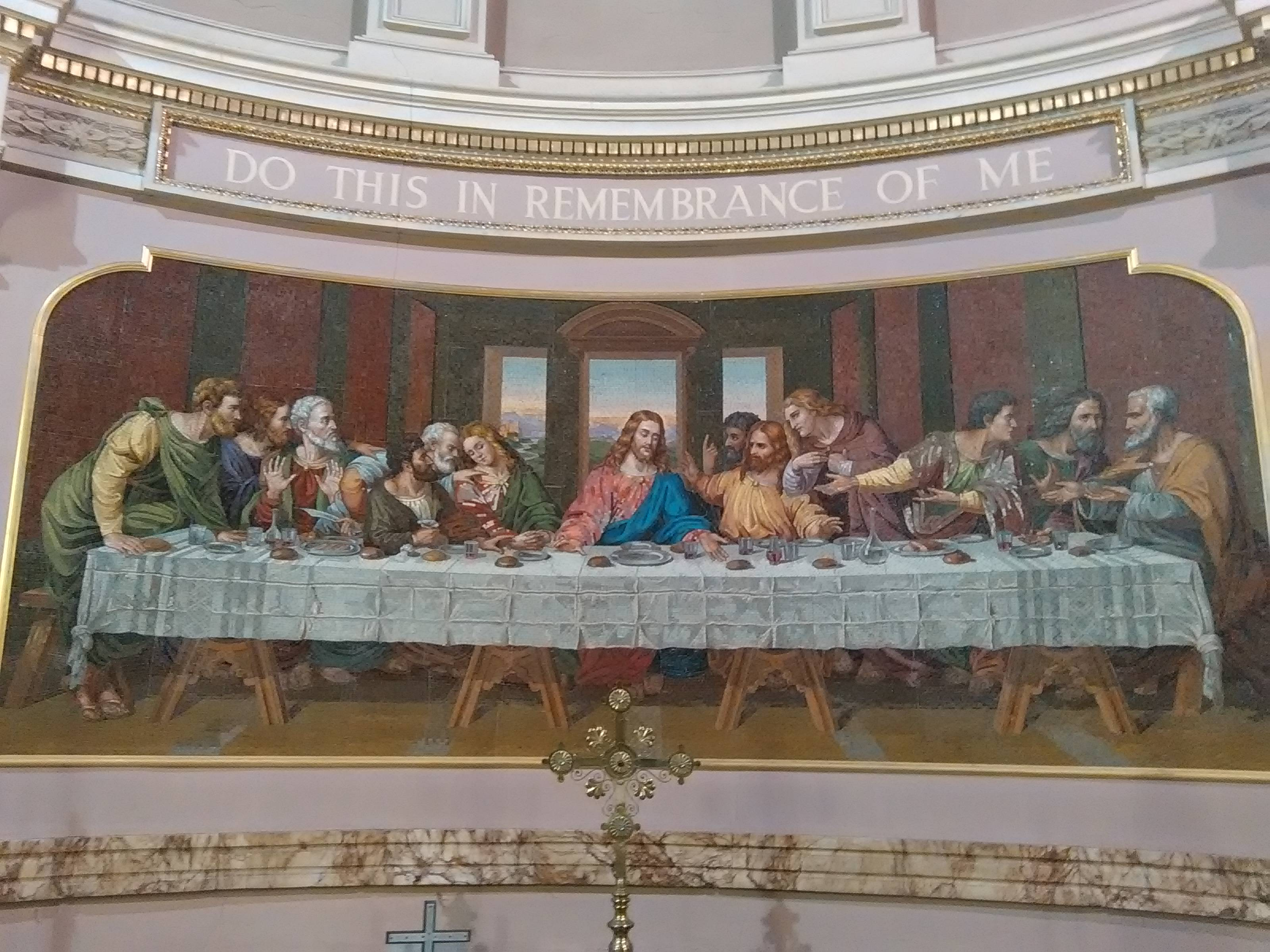 The Salviati mosaic reredos, depicting the Last Supper after da Vinci, at St. Bridget with St. Thomas parish church, Wavertree, Liverpool 15.